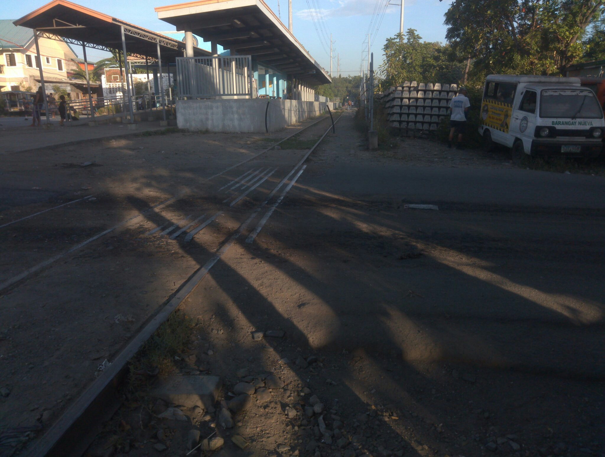 This photo was taken on December 1, 2018. This station was built to pave way for the passenger trains with at-grade doors to be used for the Commuter services down in Laguna, along with the other stations in Laguna, like Biñan station, Sta. Rosa station, Cabuyao station, Mamatid station, and Calamba station.